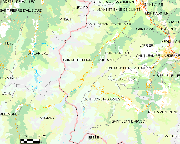 Map of French municipality